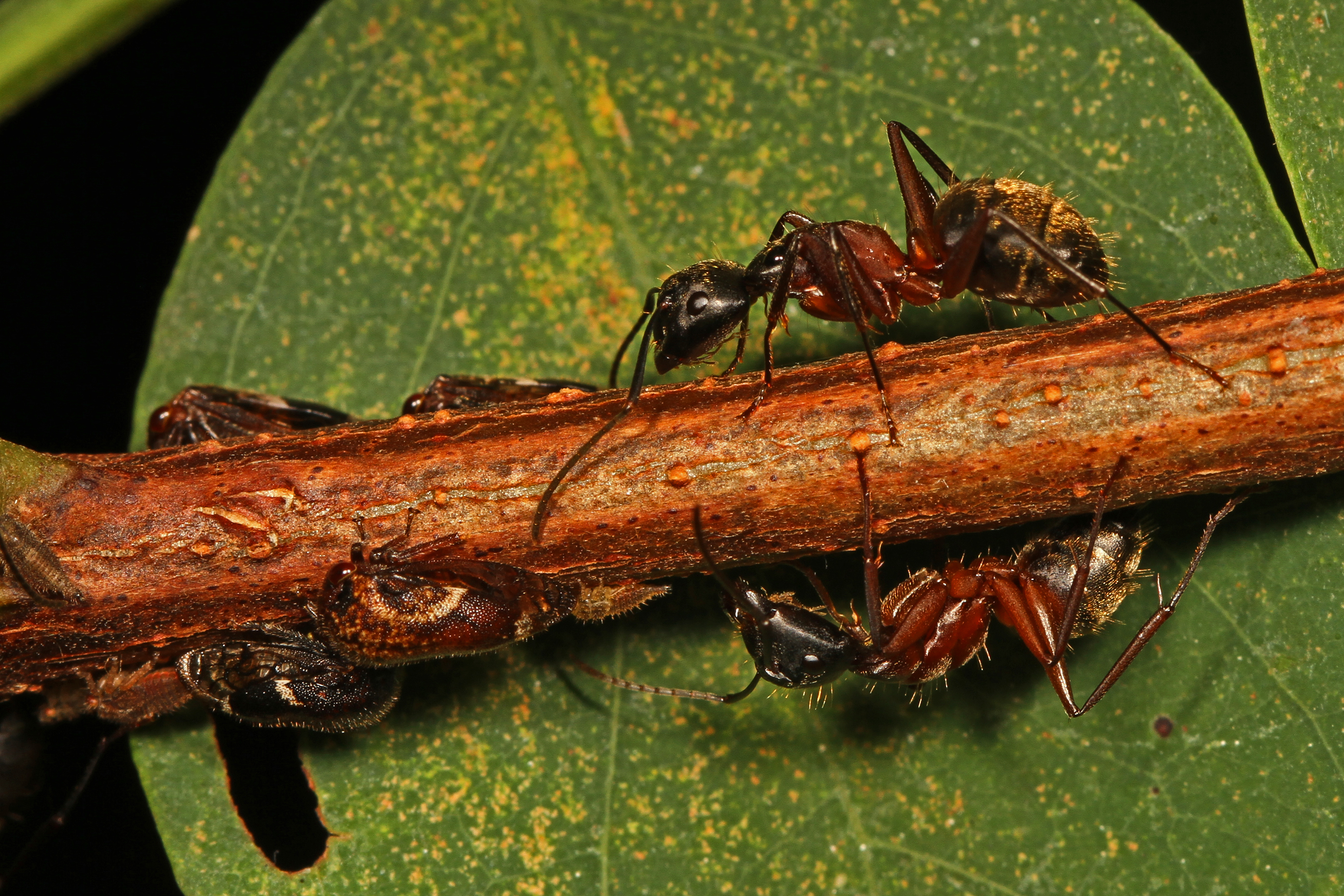 Black Locust Treehoppers and ants - Vanduzea arquata, Leesylvania State Park, Woodbridge, Virginia.